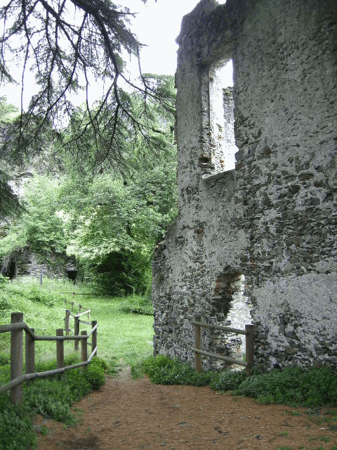 View on the Plateau - Ruins of the Fort Fuentes, near Colico, Italy